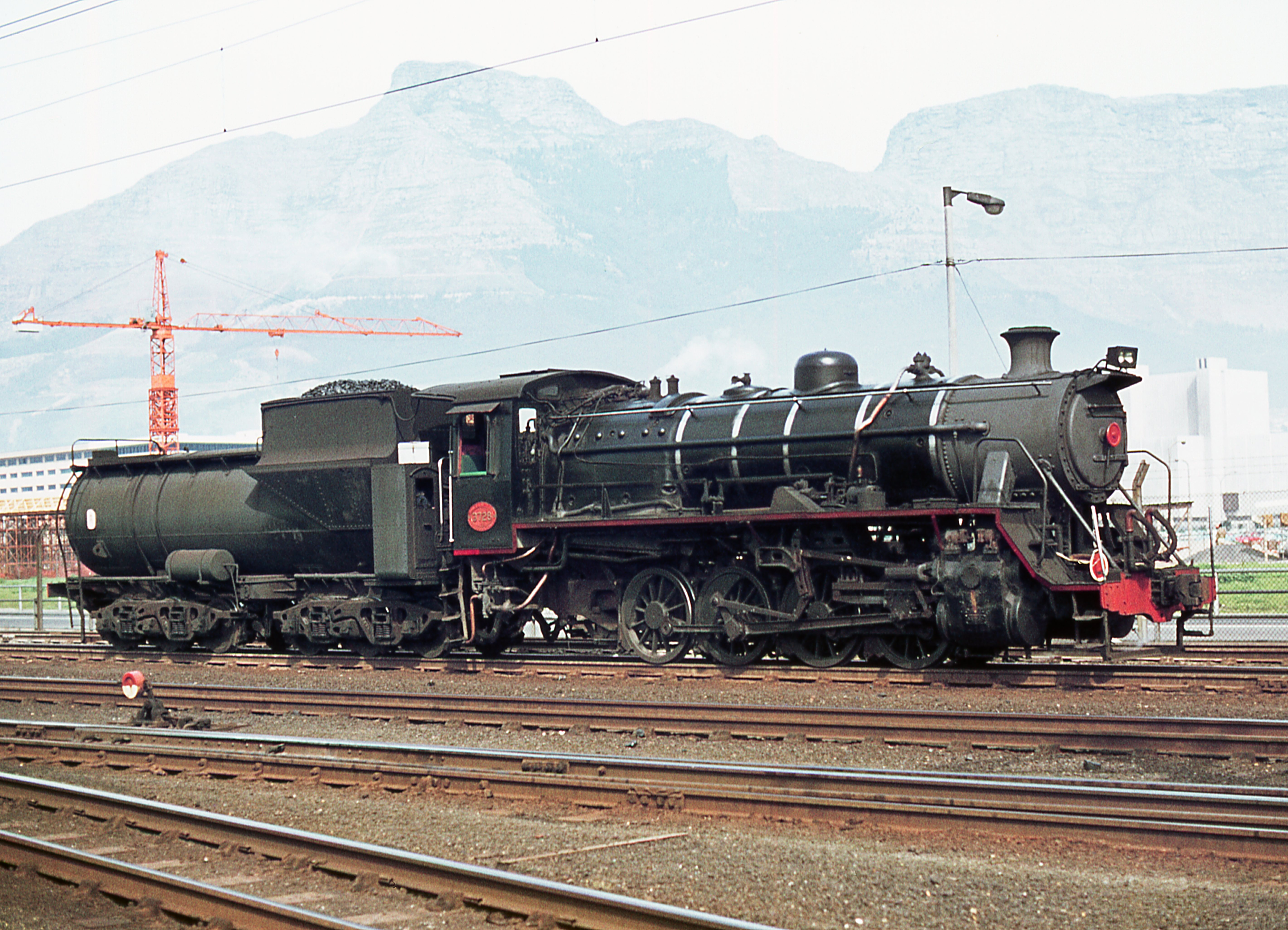 SAR Class S2 3728 (0-8-0) Location: Cape Town